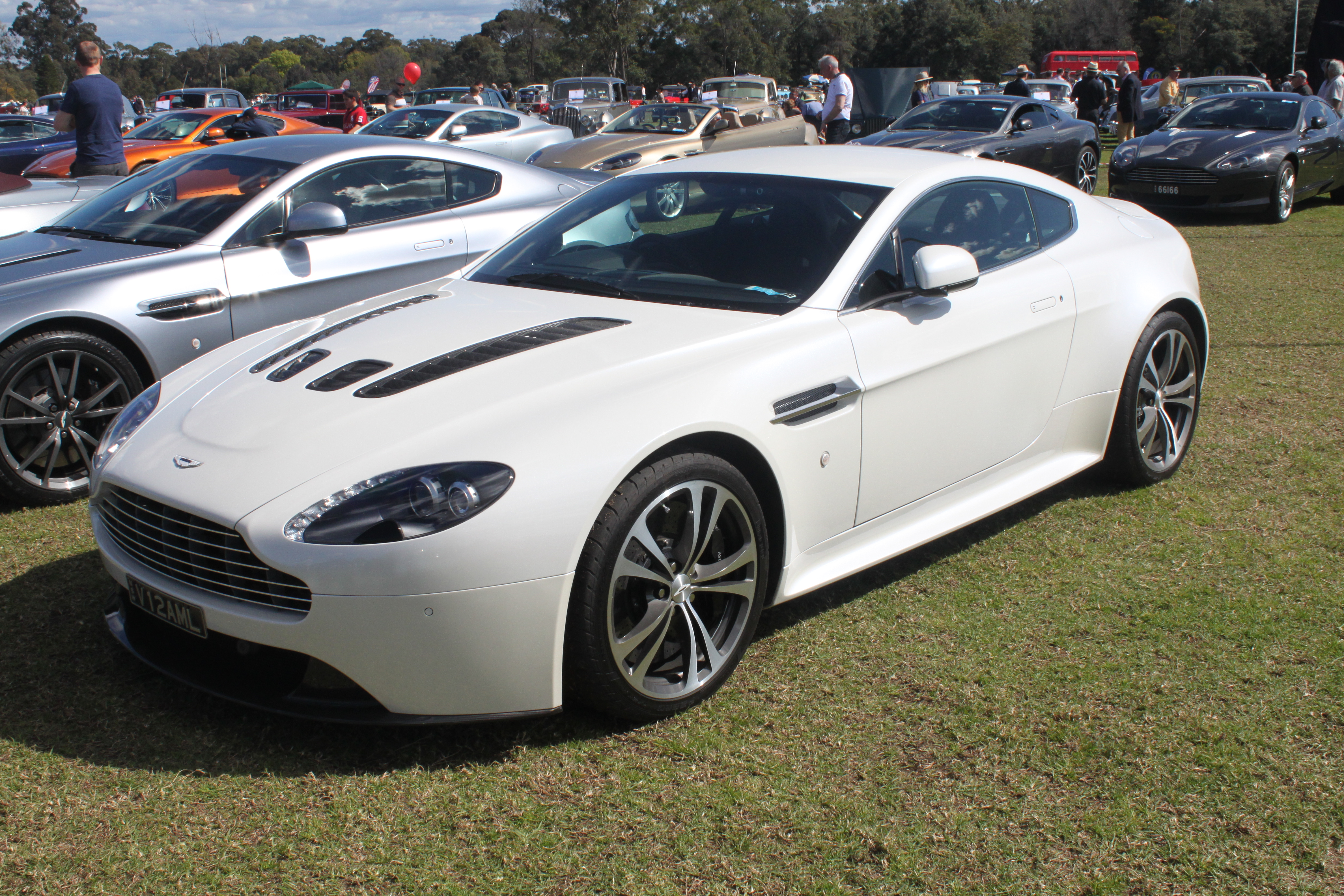 All British Day, Kings School, North Parramatta, NSW August 2015